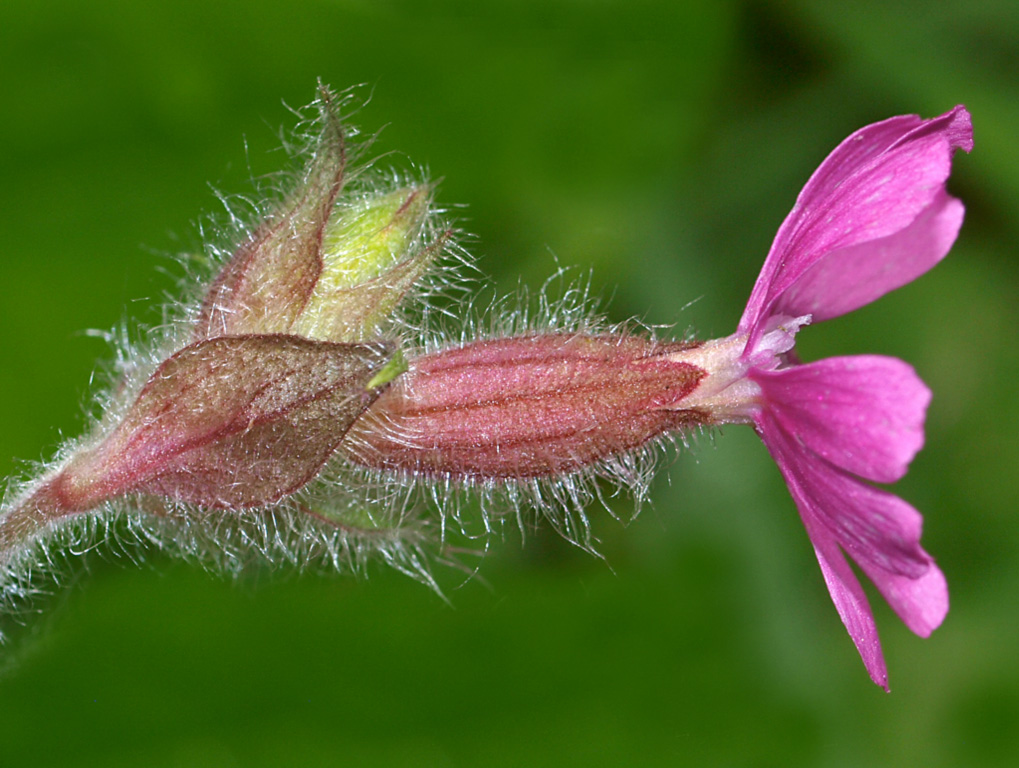 Gillies Hill, Cambusbarron, Scotland